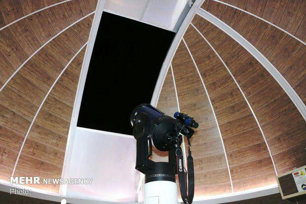 Ghadir Observatory